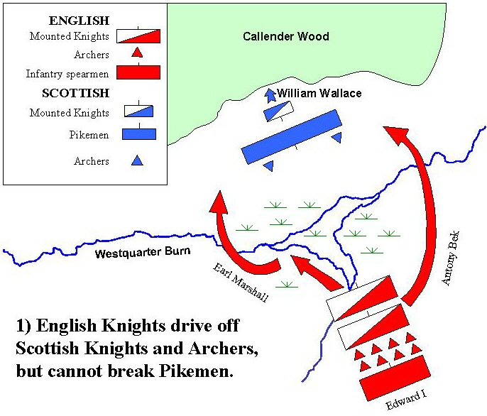 Battle of Falkirk phase 1: Derived from information in "Braveheart: History of Myth, by Paul V Walsh: Slingshot 196